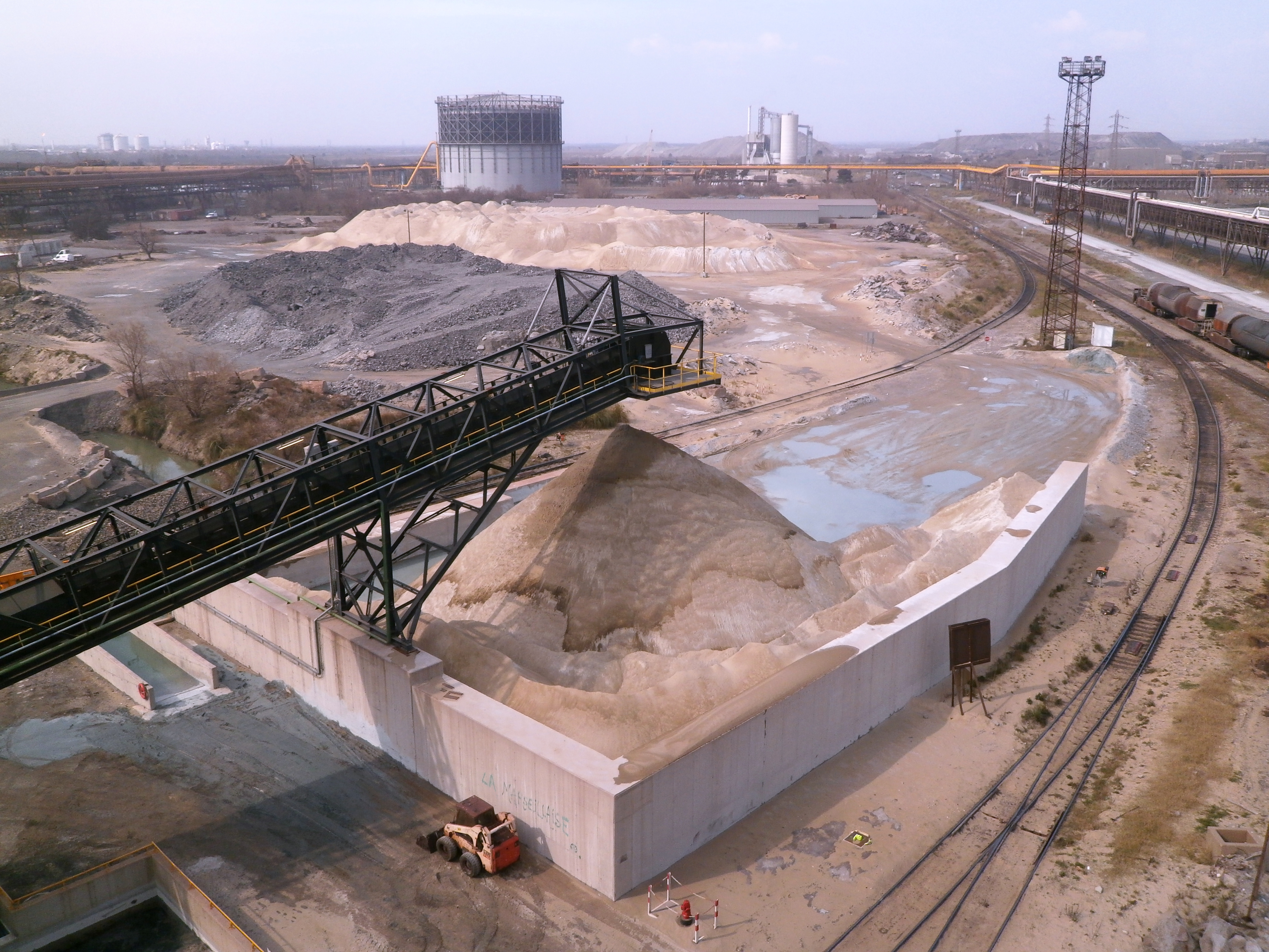 Blast furnace slag heaps, at Fos-sur-Mer steel works, France : granulated slag (in pale yellow, cone in the fore-ground and heap in the back-ground), crystallized (in gray, center-left). Their chemical composition is strictly identical, only the mode of cooling varies. In the background, from left to right, a coke oven gas gasometer and the BF slag grinding mill.